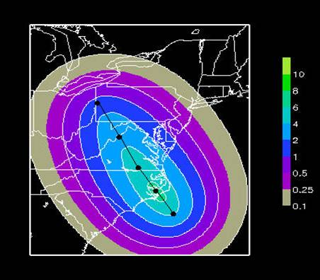 Joint Hurricane Testbed